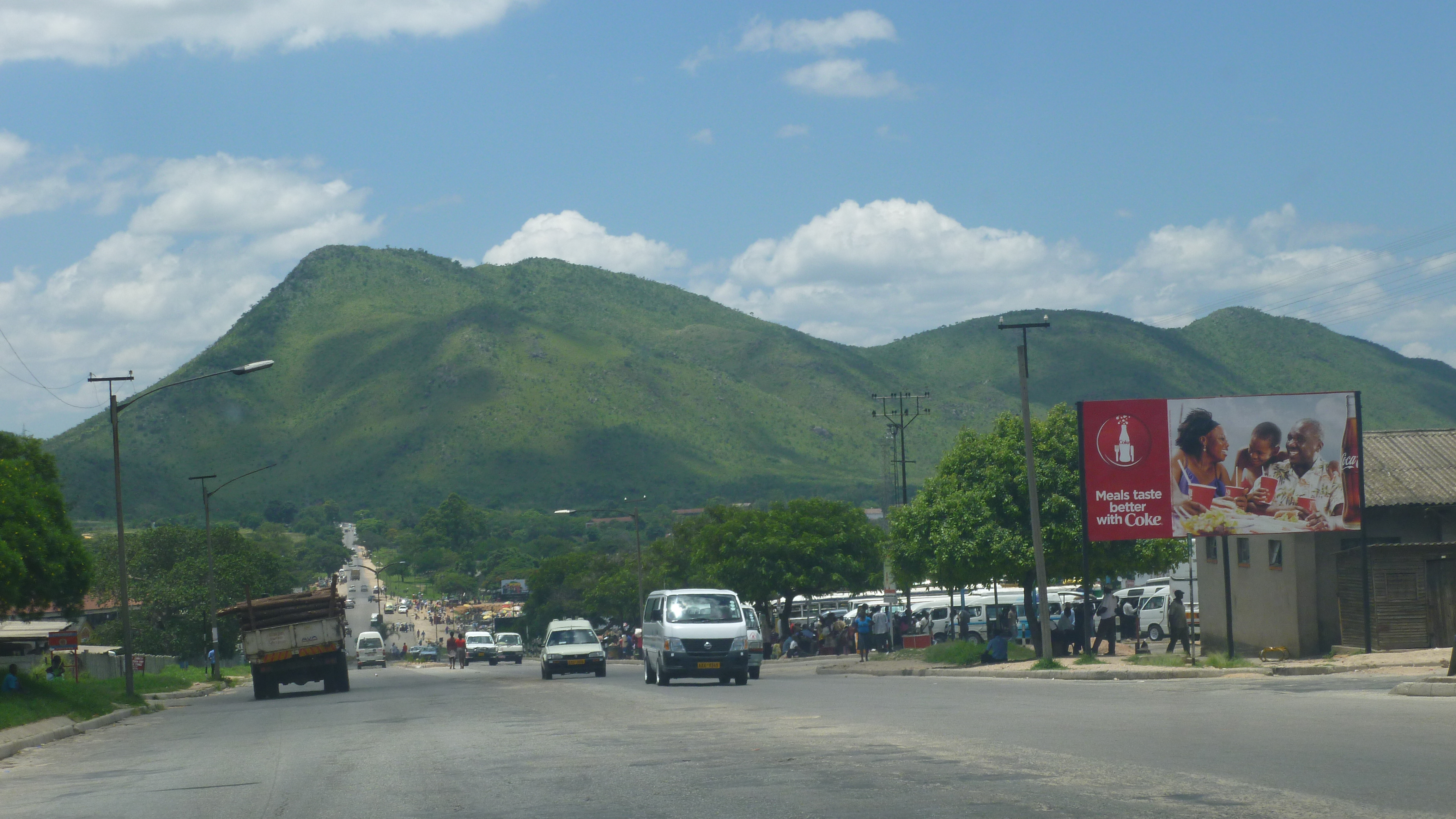 Mutare Chimanimani road going south